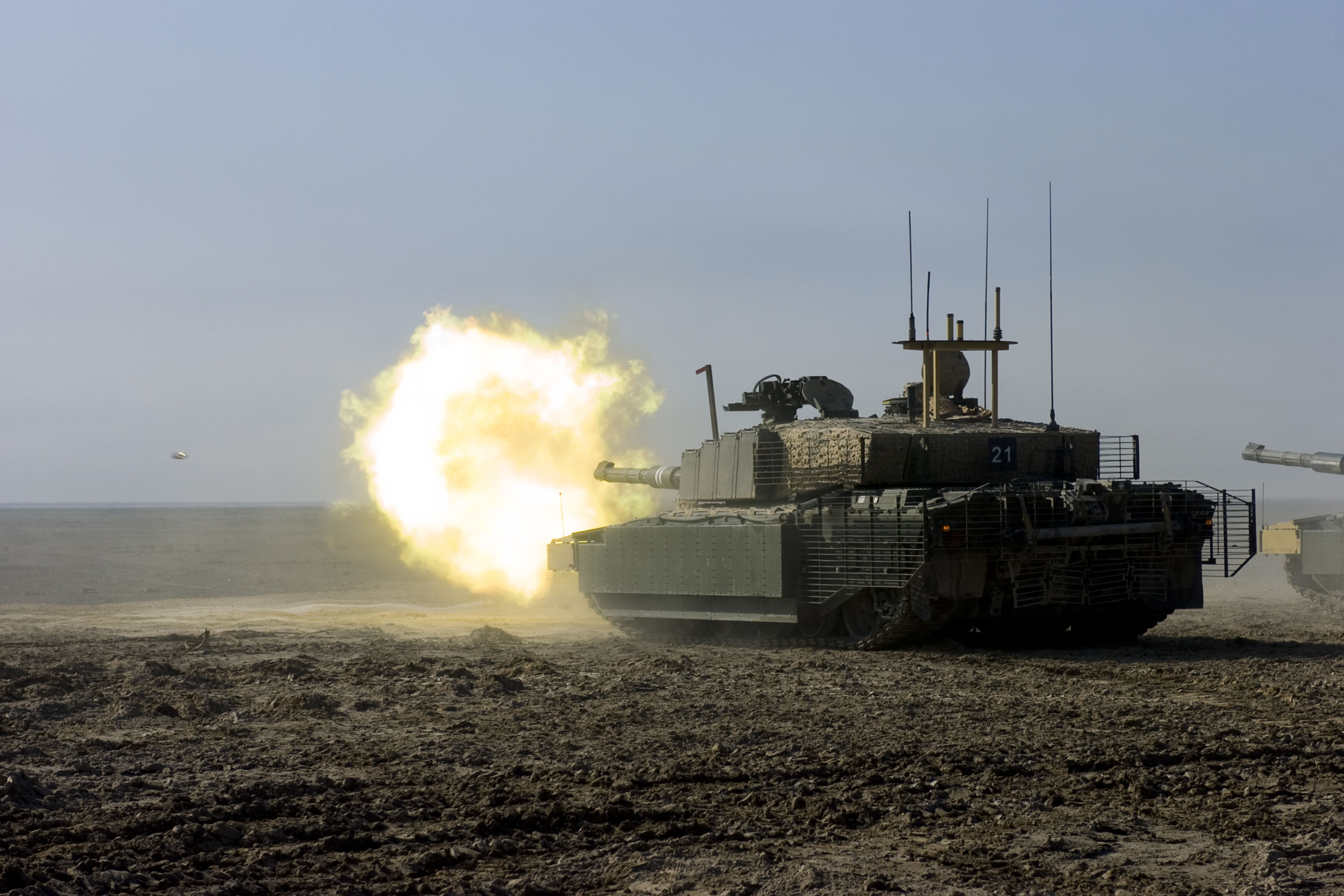 A British army Challenger II main battle tank from the Royal Scots Dragoon Guards fires at a target during a training exercise in Basra, Iraq. VIRIN: 081117-A-6851O-360